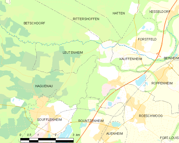 Map of French municipality